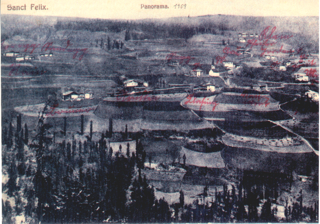 San Felice in Val di Non / Sankt Felix 1909 Sight from South South West